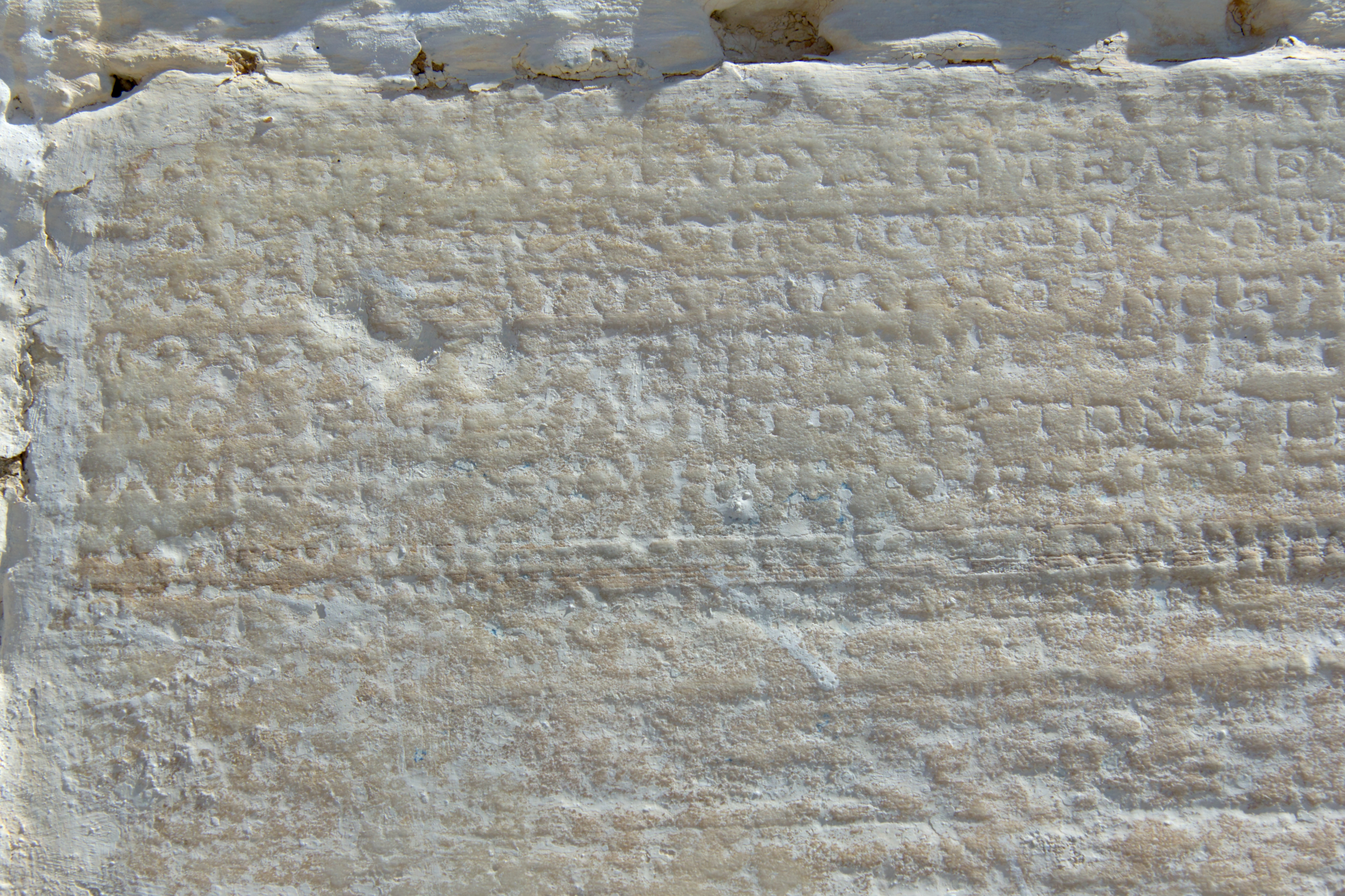 Small church of Agios Georgios at Kastro in Chora of Ios. Ancient building articles reused, with inscription. Detail of Inscription.